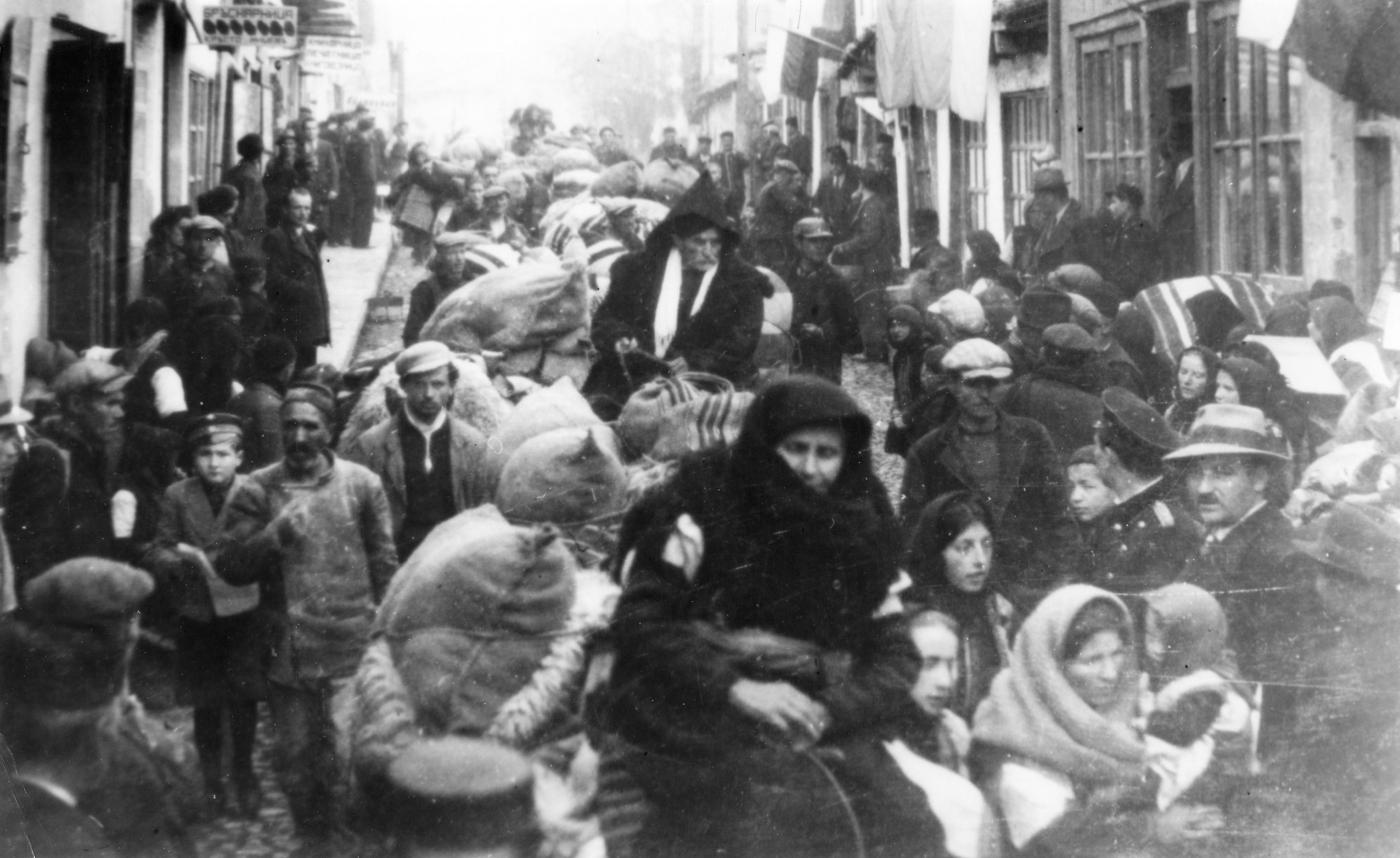 Reception of refugees, escaped from Albanian occupation zone in Macedonia (Debar, 1942), in Ohrid, Bulgarian occupation zone. This media file is produced by Wikipedian in Residence in Category:Wikipedian in Residence at DARM in 2016.